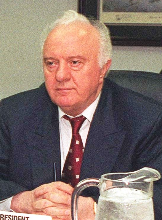 Secretary of Defense William S. Cohen (left, back to camera) meets with a delegation from Georgia led by President Eduard Shevardnadze (center), and including, among others, Minister of Foreign Affairs Irakli Menagarishvili (left, facing camera), and Mr. Charkviani, head of the Foreign Relations Department, serving here as interpreter (right). The talks, held at the Pentagon, July 17, 1997, dealt with a range of security issues of interest to both nations and culminated with the signing of a document entitled "Cooperation in the Area of Prevention of Proliferation of Weapons of Mass Destruction and Promotion of Defense and Military Relations."